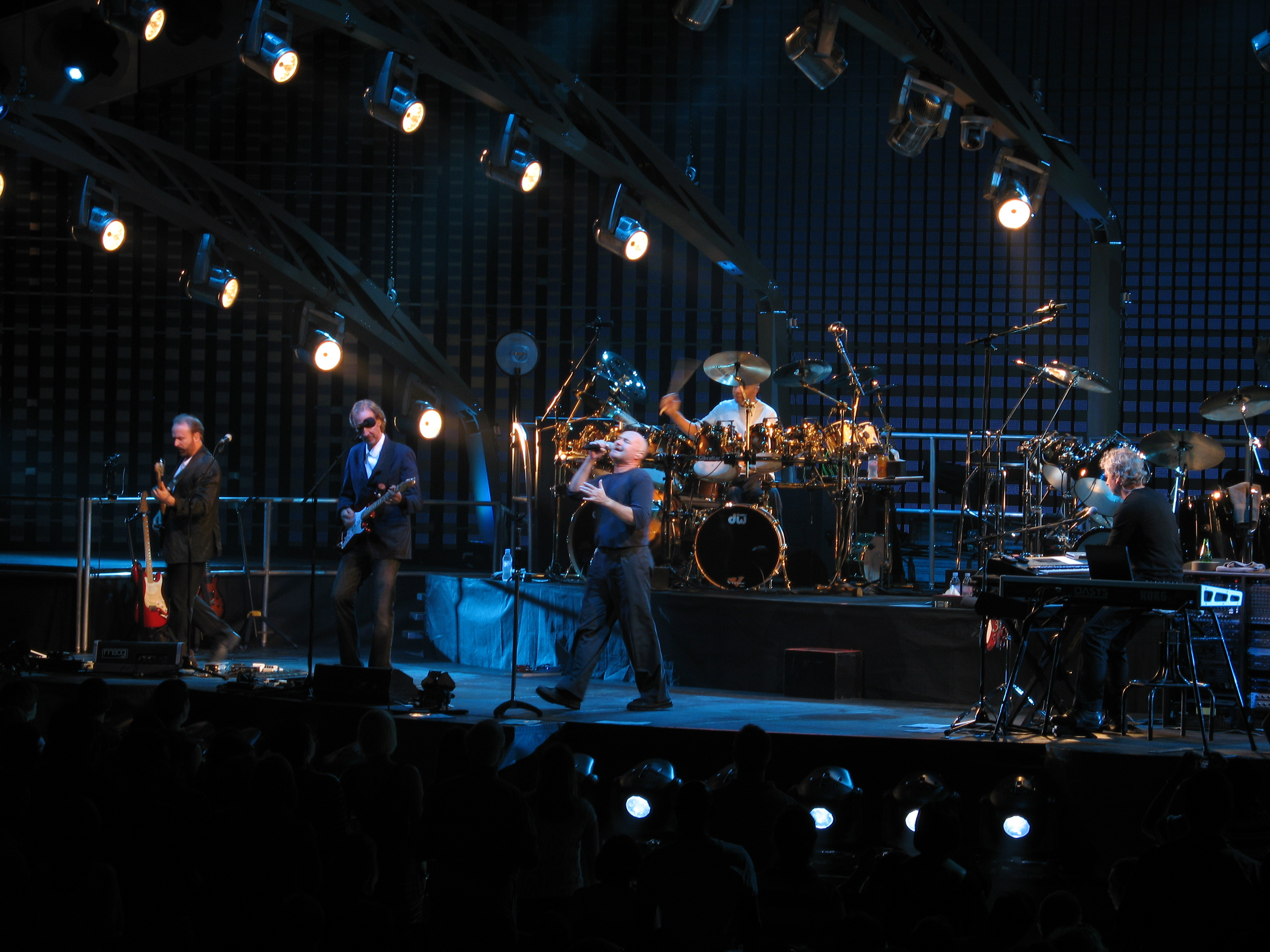 Genesis concert at the Verizon Center, Washington, D.C., USA. Performing "No Son of Mine".